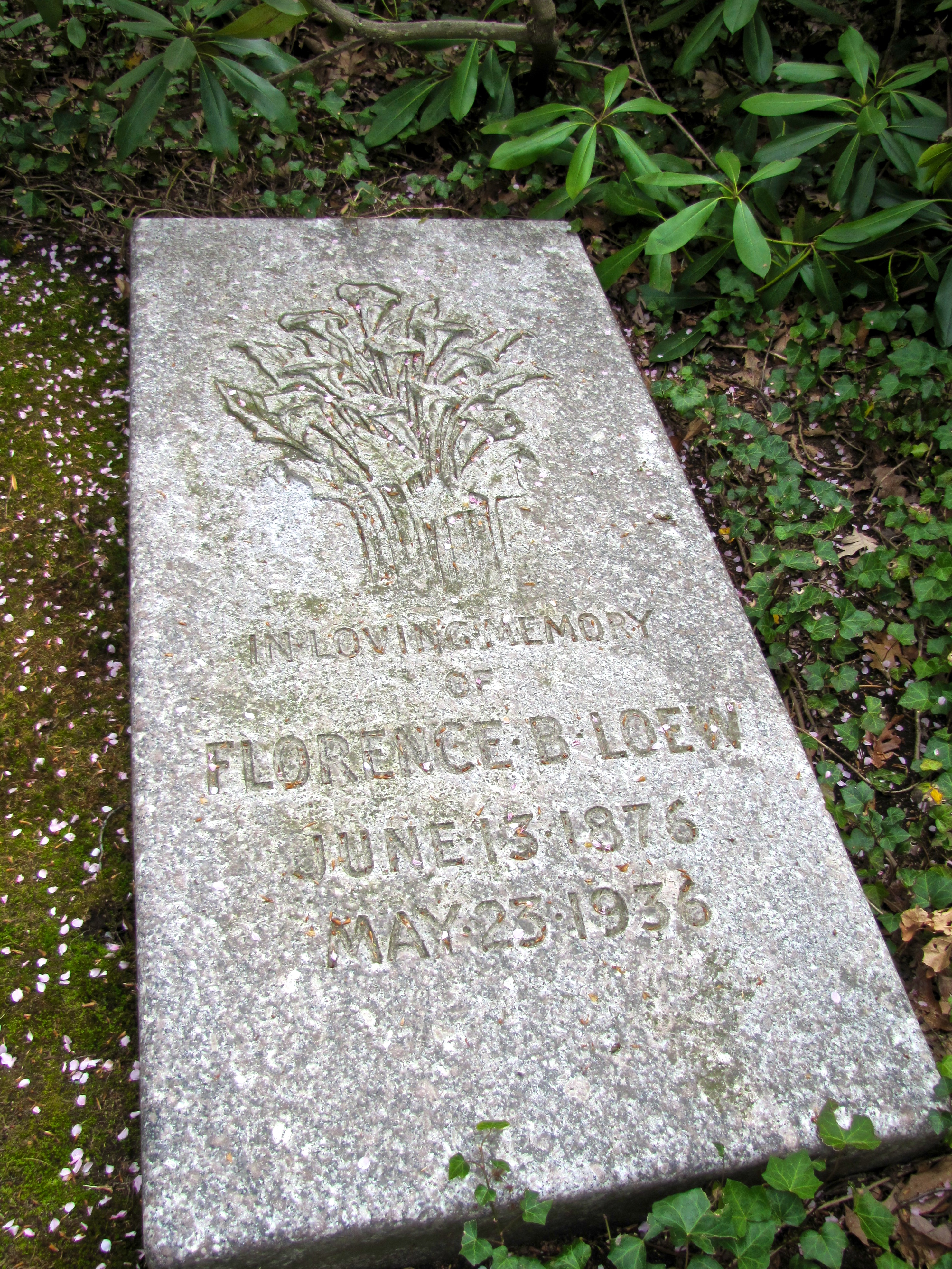 Florence B. Loew June 13 1876 - May 23 1936